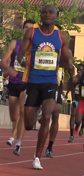 Prince Mumba at the 2016 Hoka One One Middle Distance Classic, at Occidental College, May 10, 2016